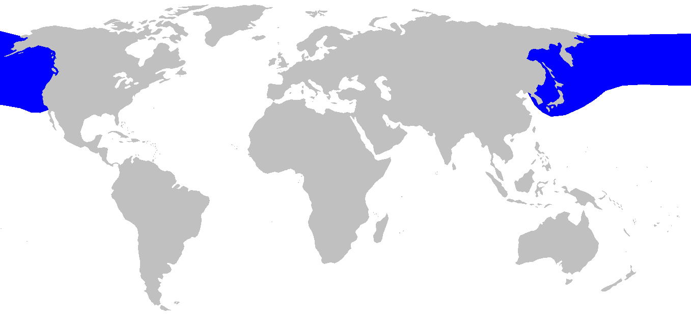 Distribution map for Lamna ditropis